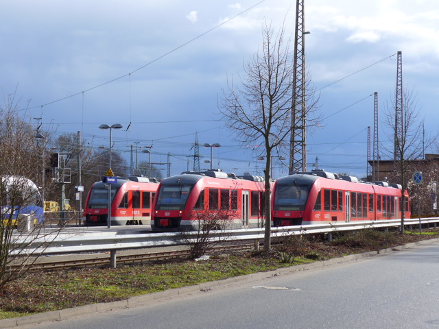 at Kreiensen railway station